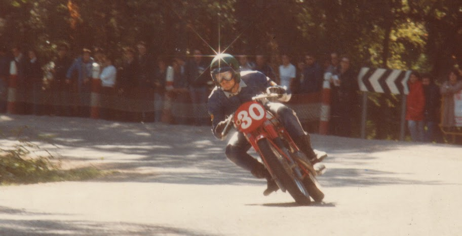 Jordi Fornas on his Montesa Impala 175 during his first race, the rise to Sant Feliu de Codines, 1982